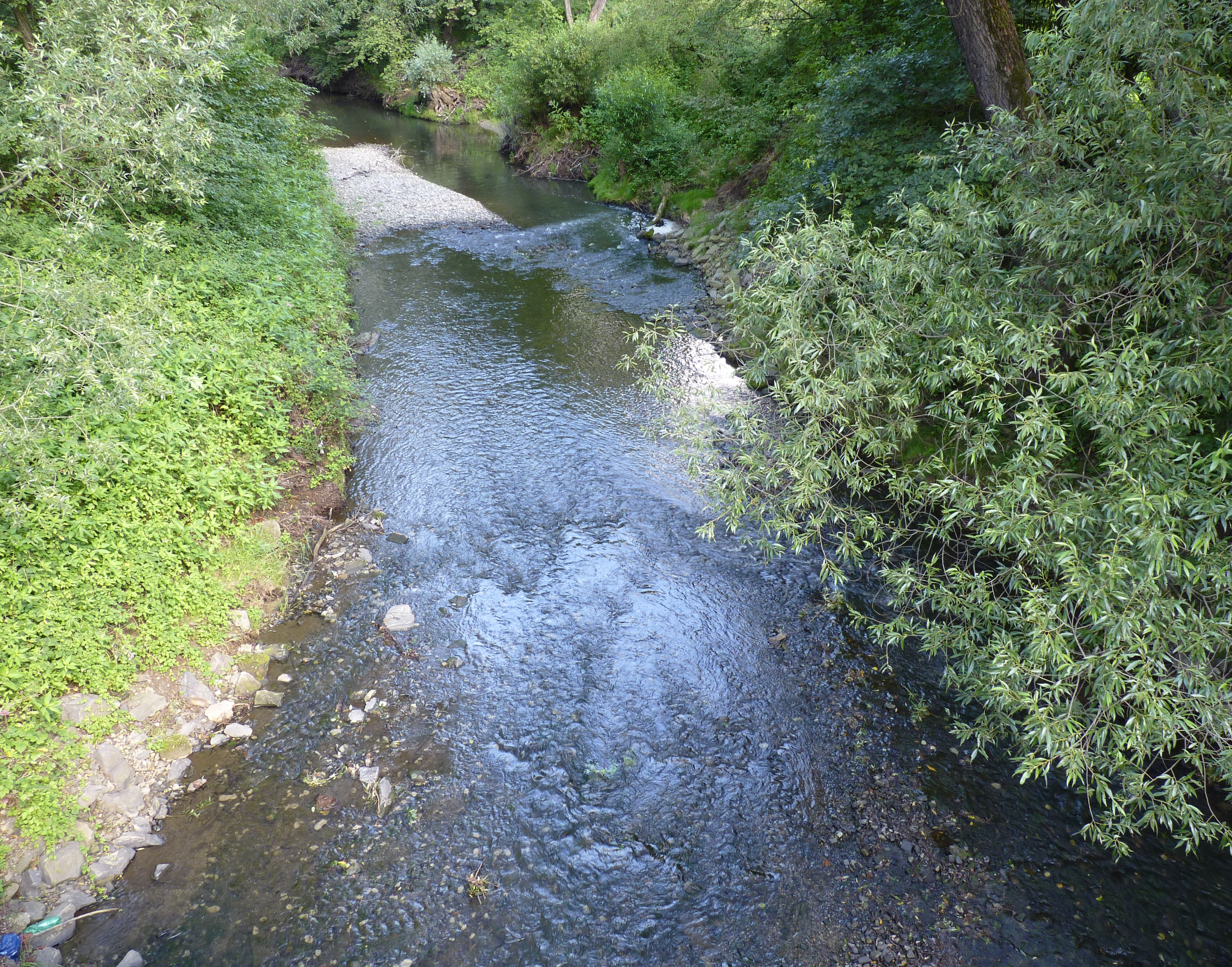 Stonávka River. Stonava, Karviná District, Moravian-Silesian Region, Czech Republic